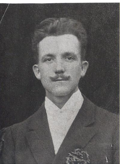 Antoni Ferdyan